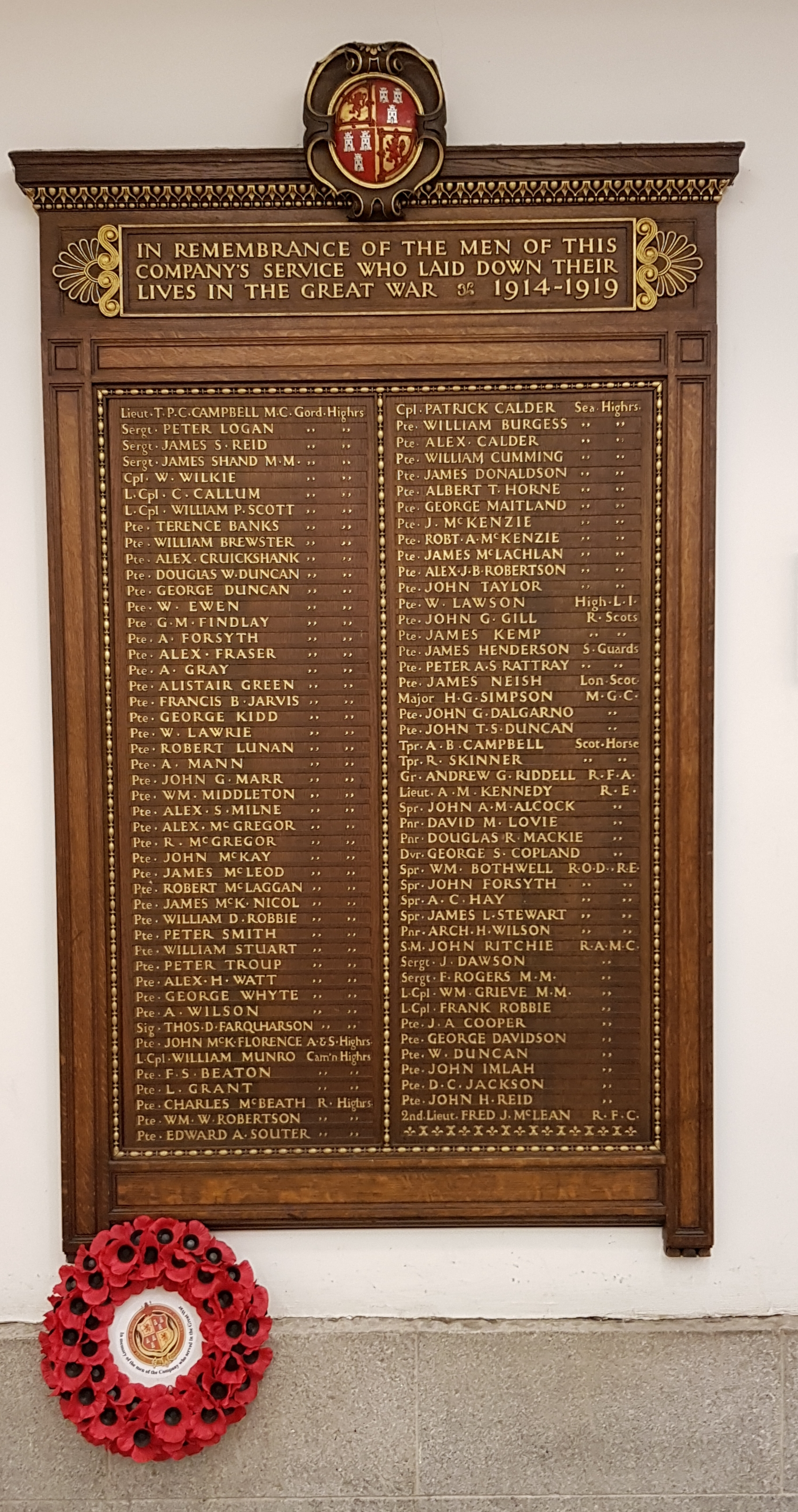 Plaque commemorating the employees of GNSR in WW1, at Aberdeen railway station